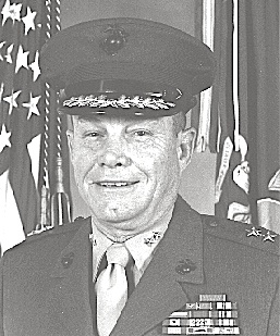 Major General Jarvis Lynchk, USMC. Source: Official Marine Corps biography URL